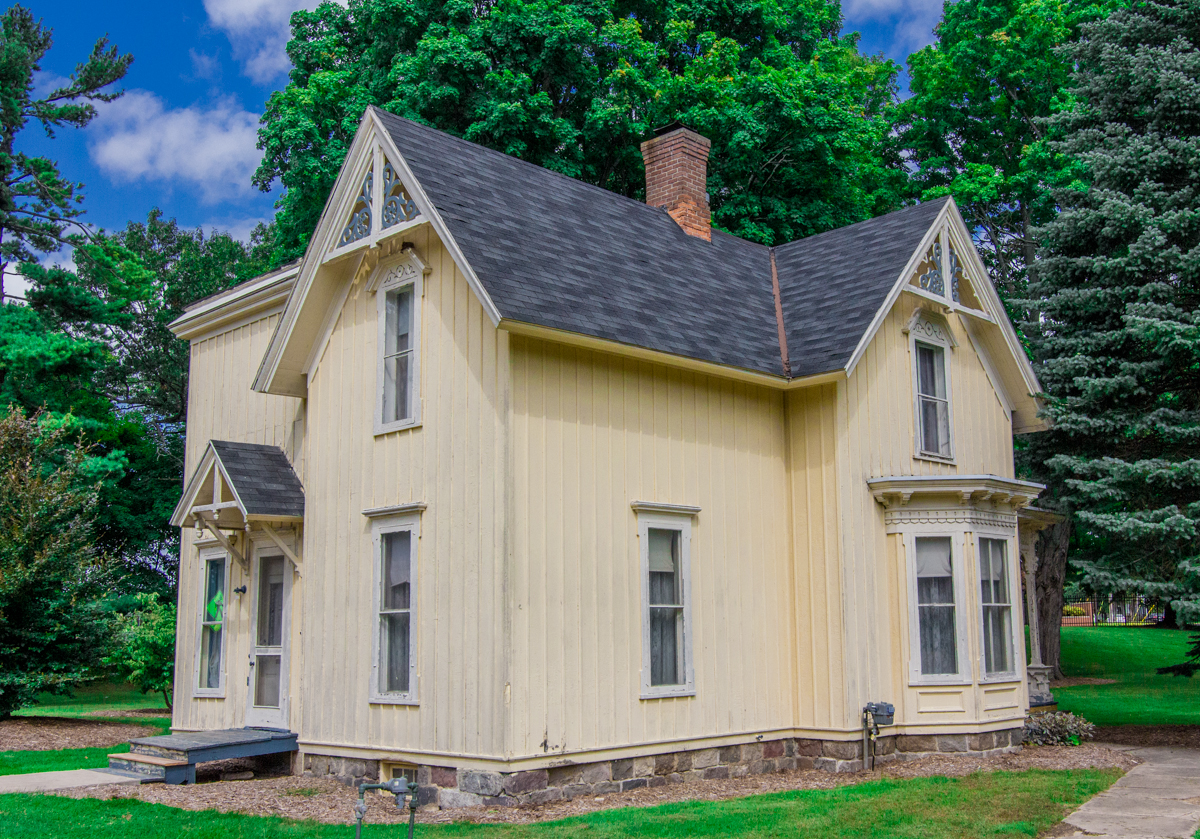 100px